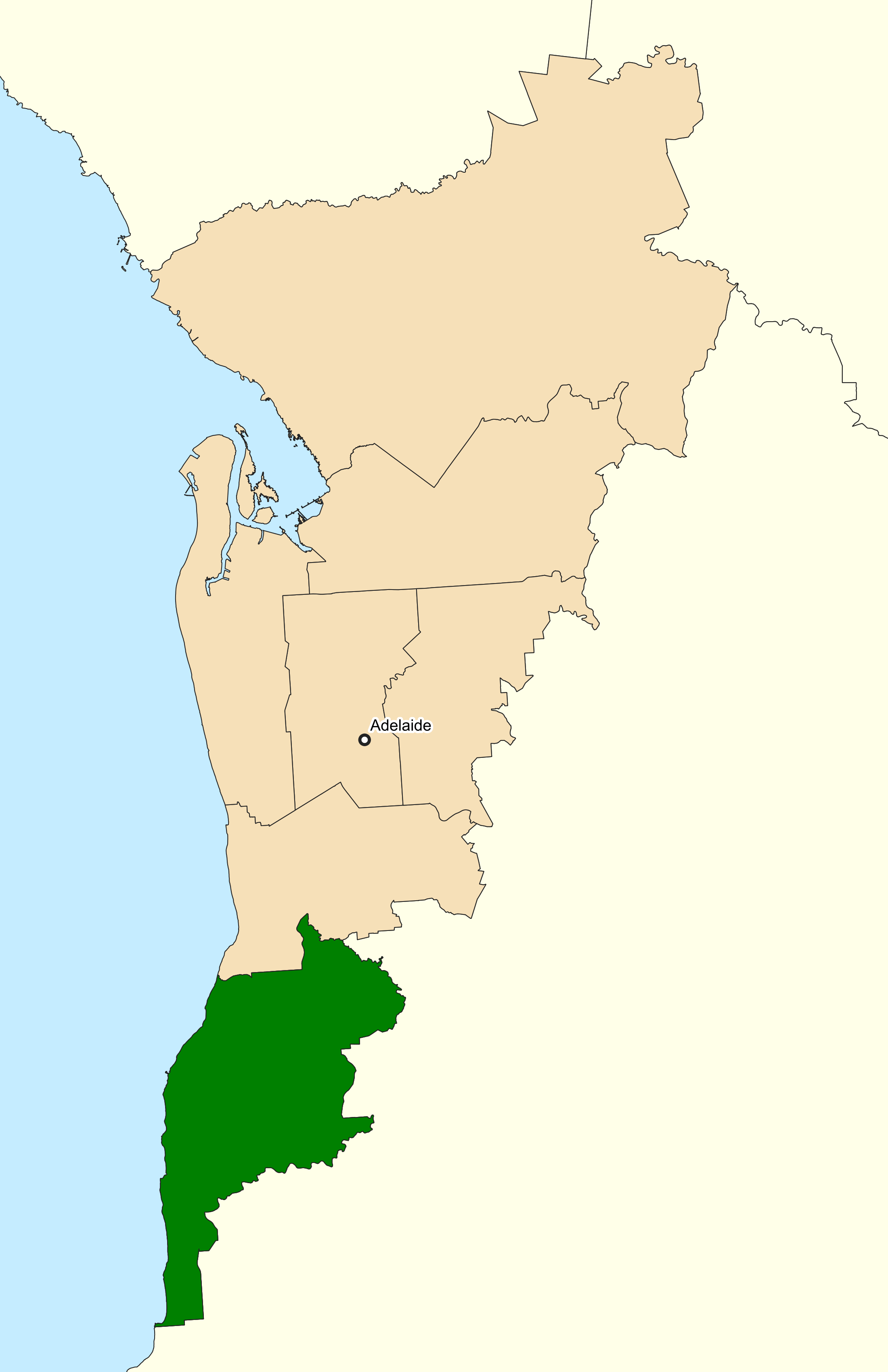 Location of the Australian federal electoral division of Kingston (dark green) in Greater Adelaide, South Australia as of the 2019 Australian federal election. Incorporates or developed using Administrative Boundaries ©PSMA Australia Limited licensed by the Commonwealth of Australia under Creative Commons Attribution 4.0 International licence (CC BY 4.0).